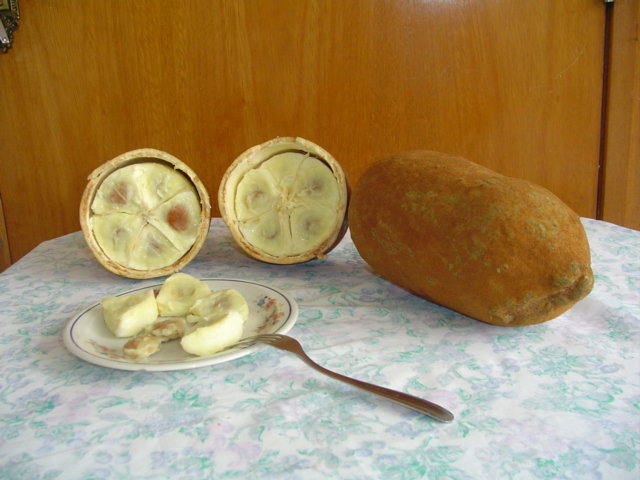 Cupuaçu fruit